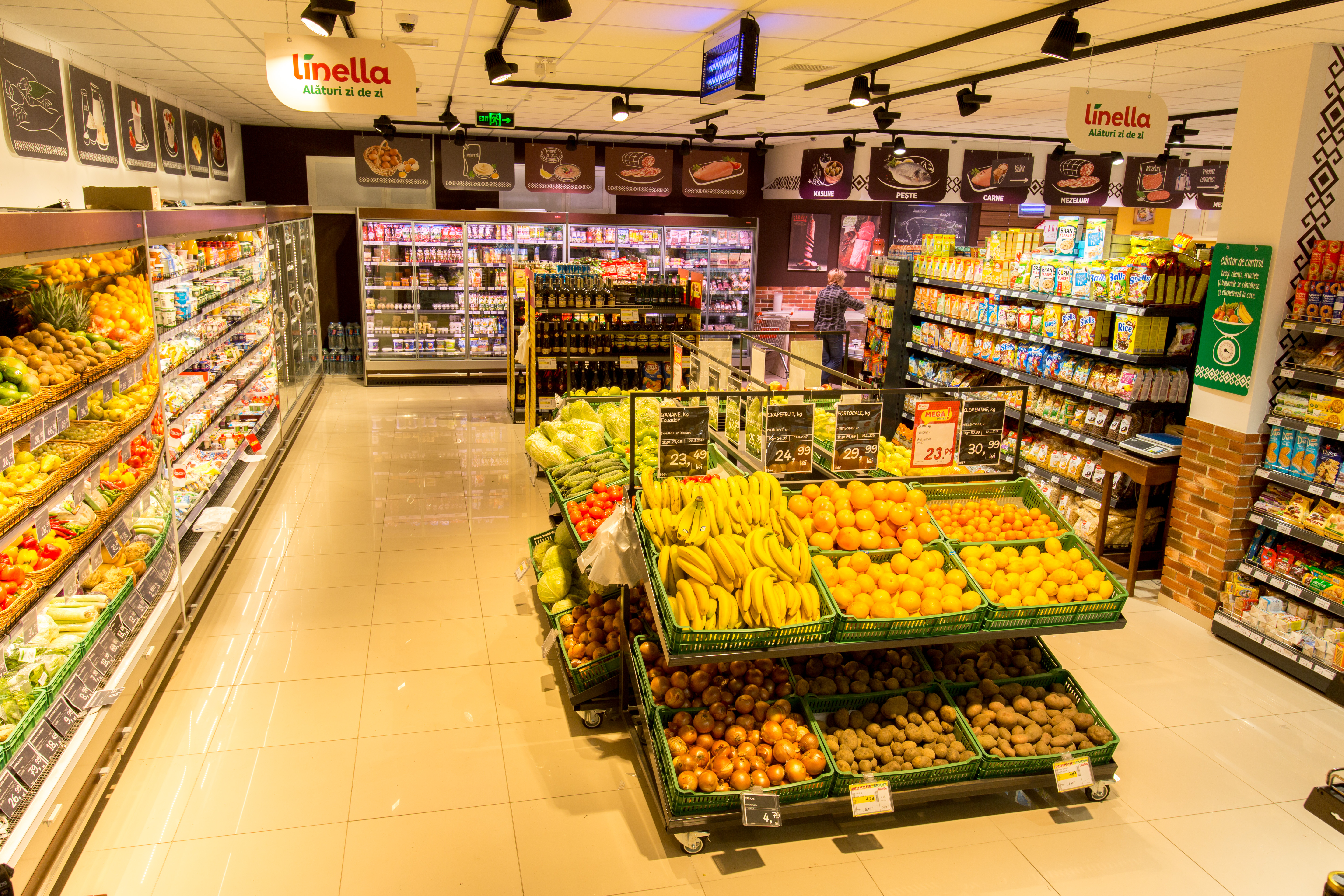 Interior